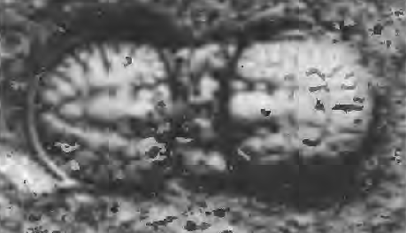 Glyptagnostus reticulatus angelini - holotype (Allison R. Palmer, 1962)